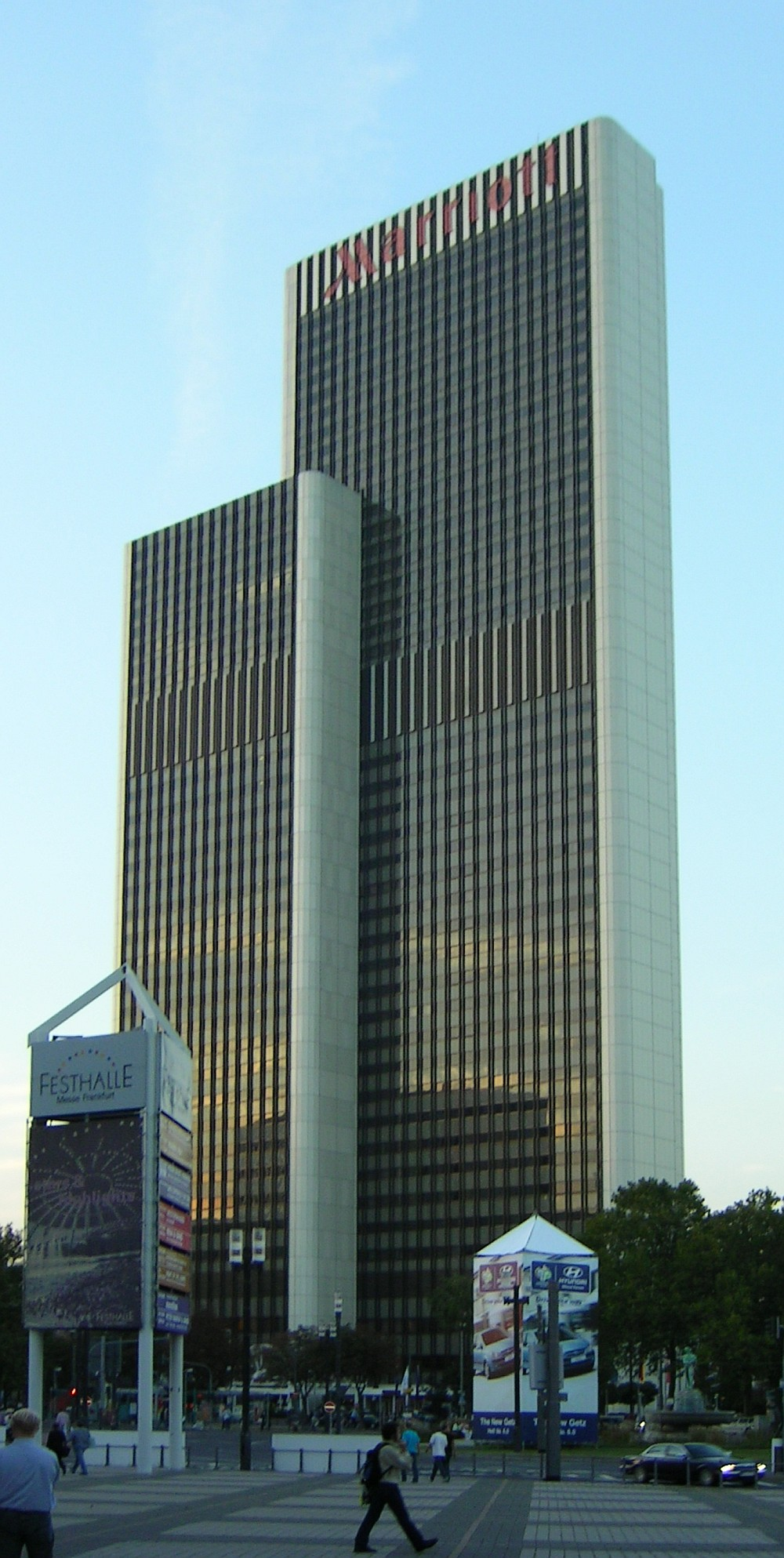 Plaza office center Frankfurt, Office and hotel skyscraper at the Frankfurt Fairground, 159m (522ft) tall, built 1976